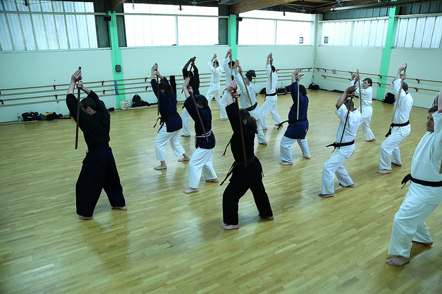 Kenjutsu workshop in France